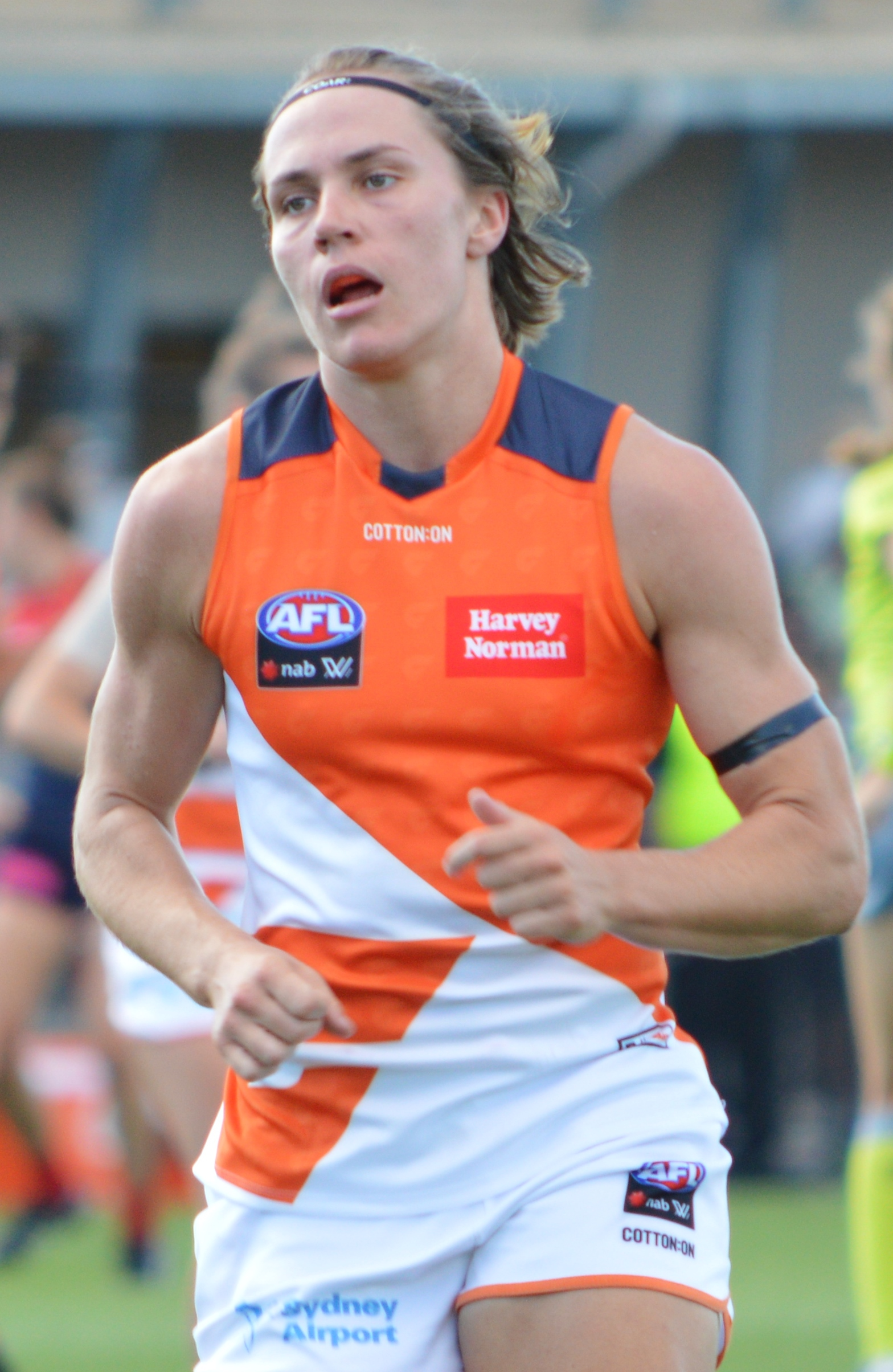 Pepa Randall during the round 1, 2018 AFL Women's match between Melbourne and Greater Western Sydney.